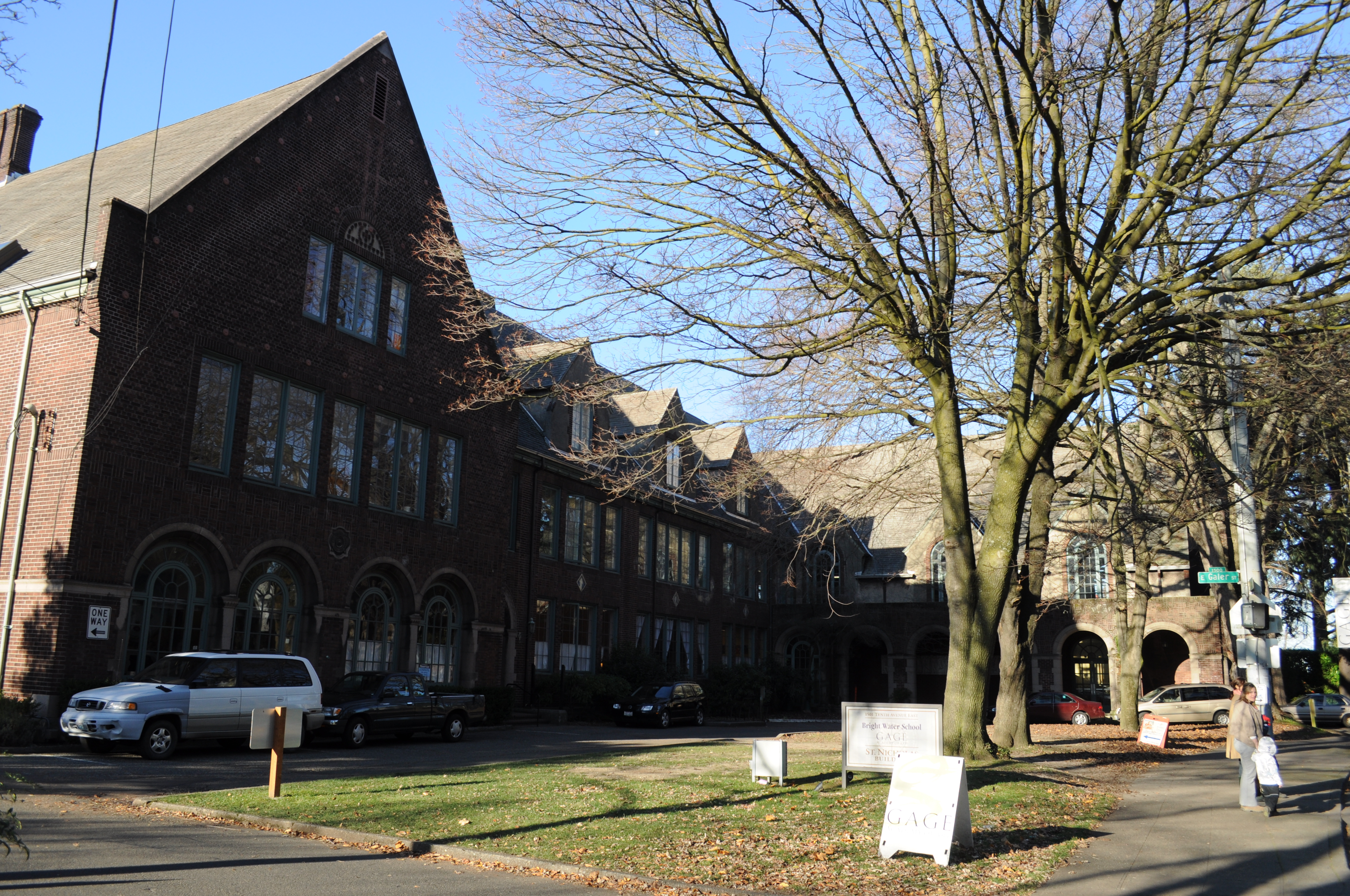 Saint Nicholas School, Seattle, WA. A non-sectarian private school for girls (grades 1-12), SNS merged with all-boys Lakeside School in the 1970s. The historic building is located next door to Saint Mark's Episcopal Cathedral, Capitol Hill, Seattle, Washington, USA. The building subsequently housed a large part of the Cornish College of the Arts, and is now home to the Gage Academy of Art and the Bright Water School.